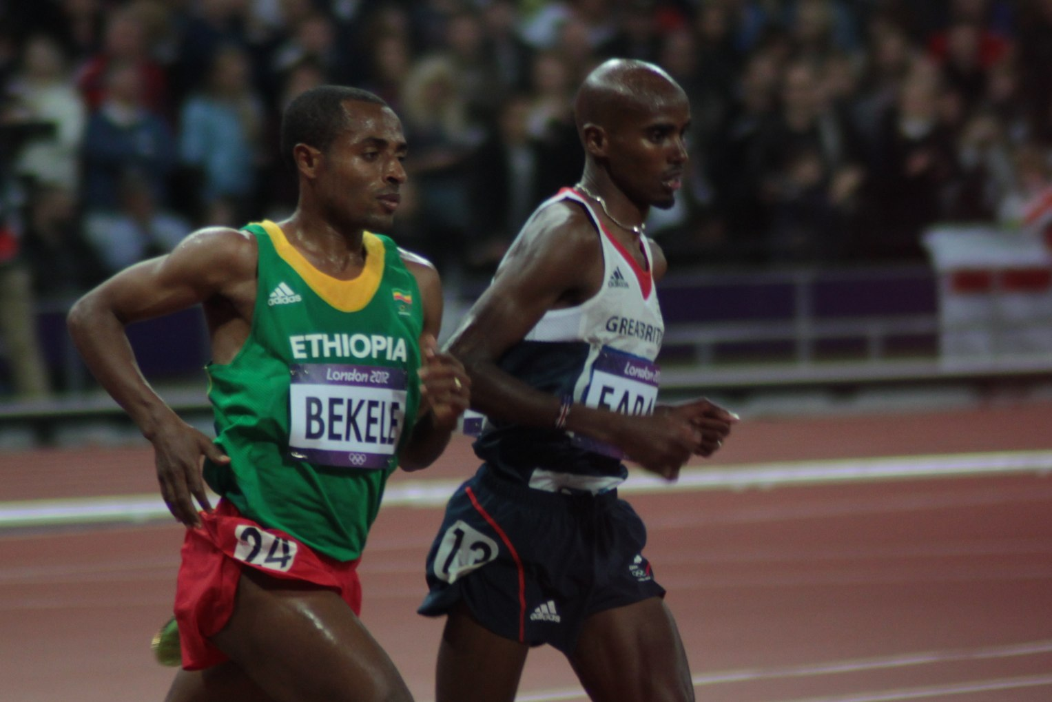 London 2012, The Olympic Games